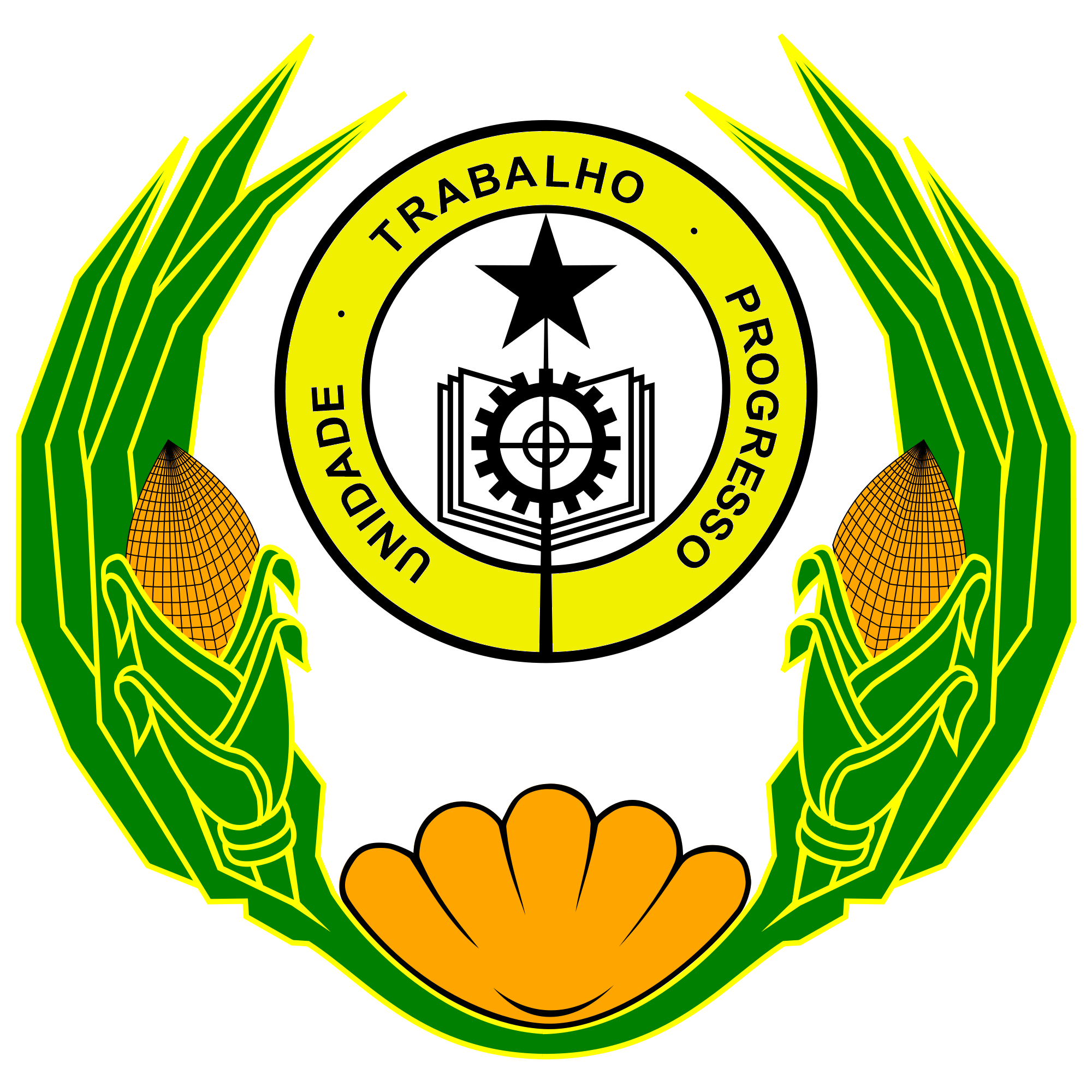 emblem of cape verde